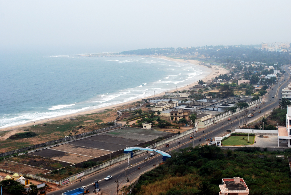 Lawsons Bay view from Kailasagiri in Visakhapatnam